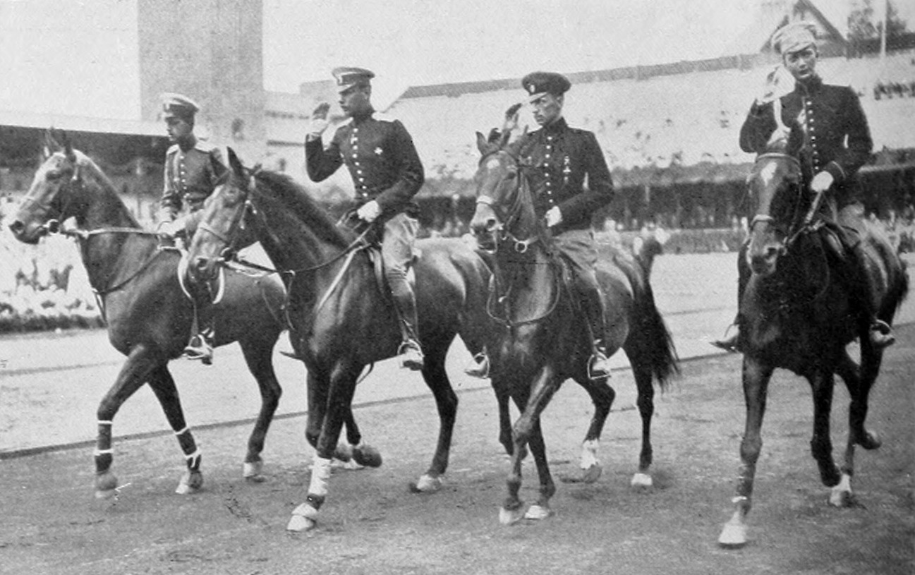 Russian jumping team 1912 Olympics: The Grand Duke DMITRY PAWLTOWITCH; Captain RODZIANKO; Captain SELIKHOFF; Lieutenant PLECHKOFF